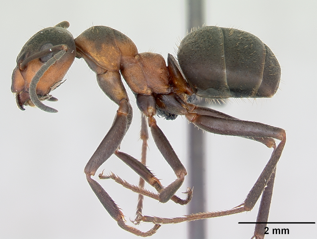 Profile view of ant Formica lugubris specimen casent0173155.